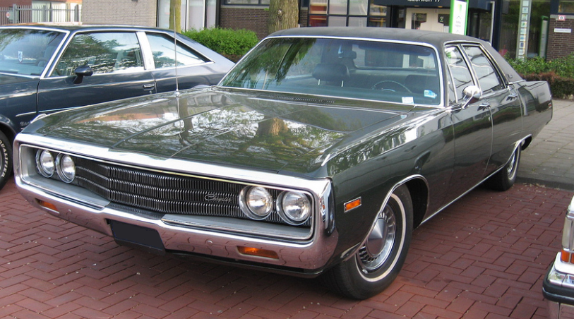 1970 C-body Chrysler Newport 4-door sedan